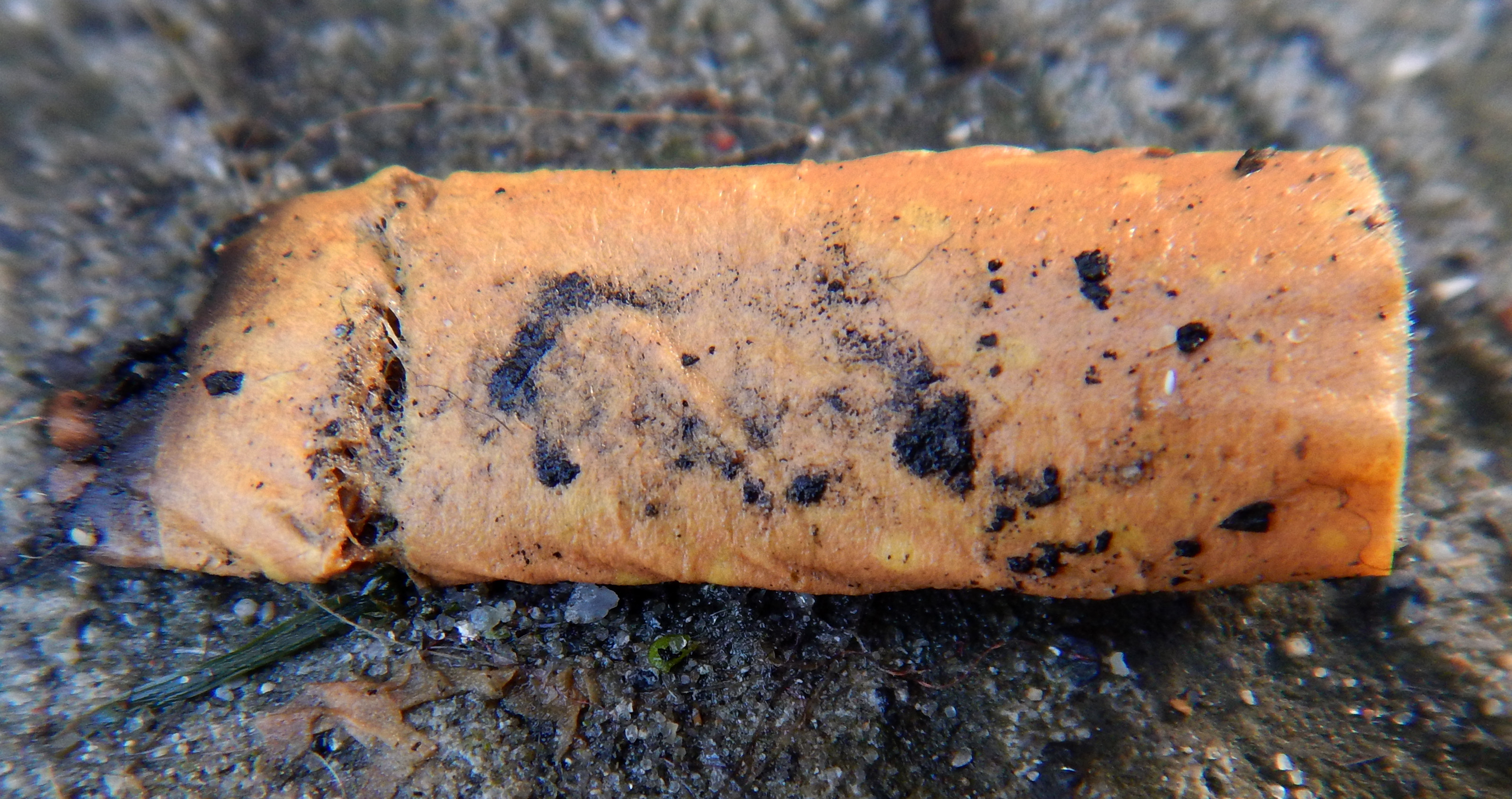 Cigarette butt on wet sidewalk, after heavy rain